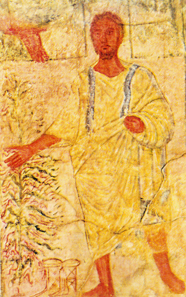 Moses and the Burning Bush, panel on the West wall of the Dura Europos Synagogue.